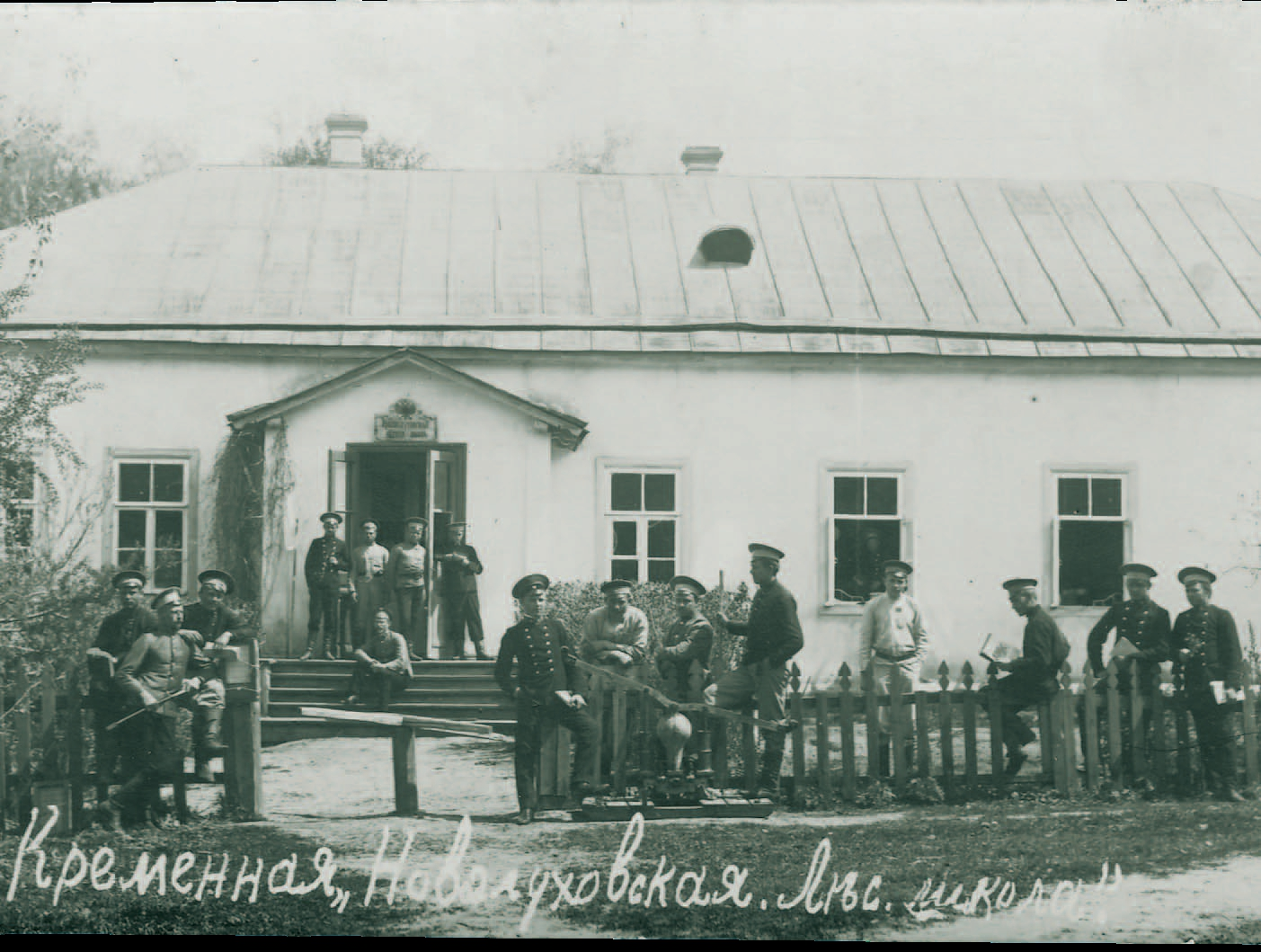 School. Sloboda Kremennay. 1910.